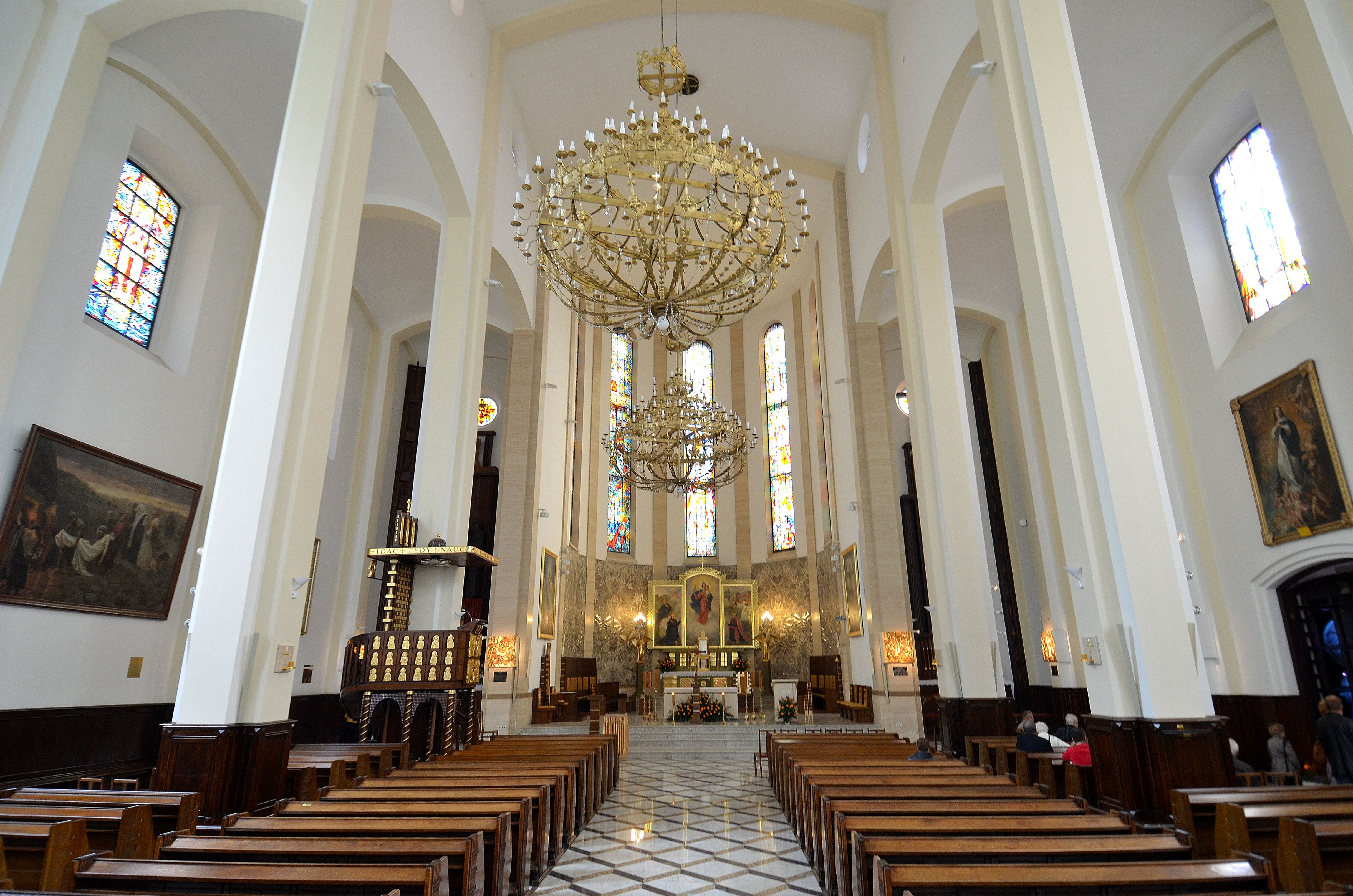 Interior of Our Lady of Victory church in Warsaw